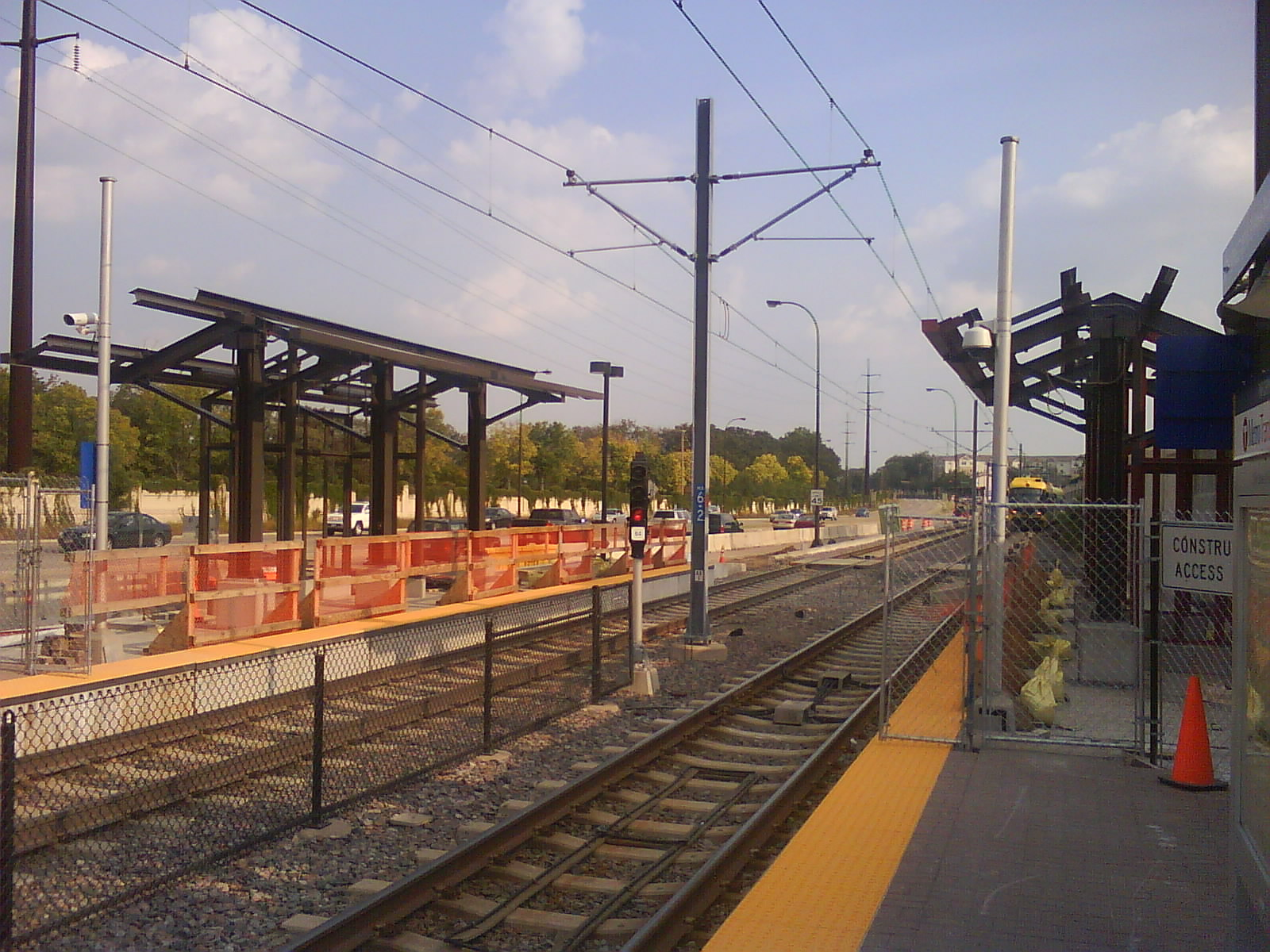 A photo of the in-progress extension of the Minnehaha/50th St. station of the Hiawatha Line LRT, in Minneapolis, Minnesota. Facing southward.